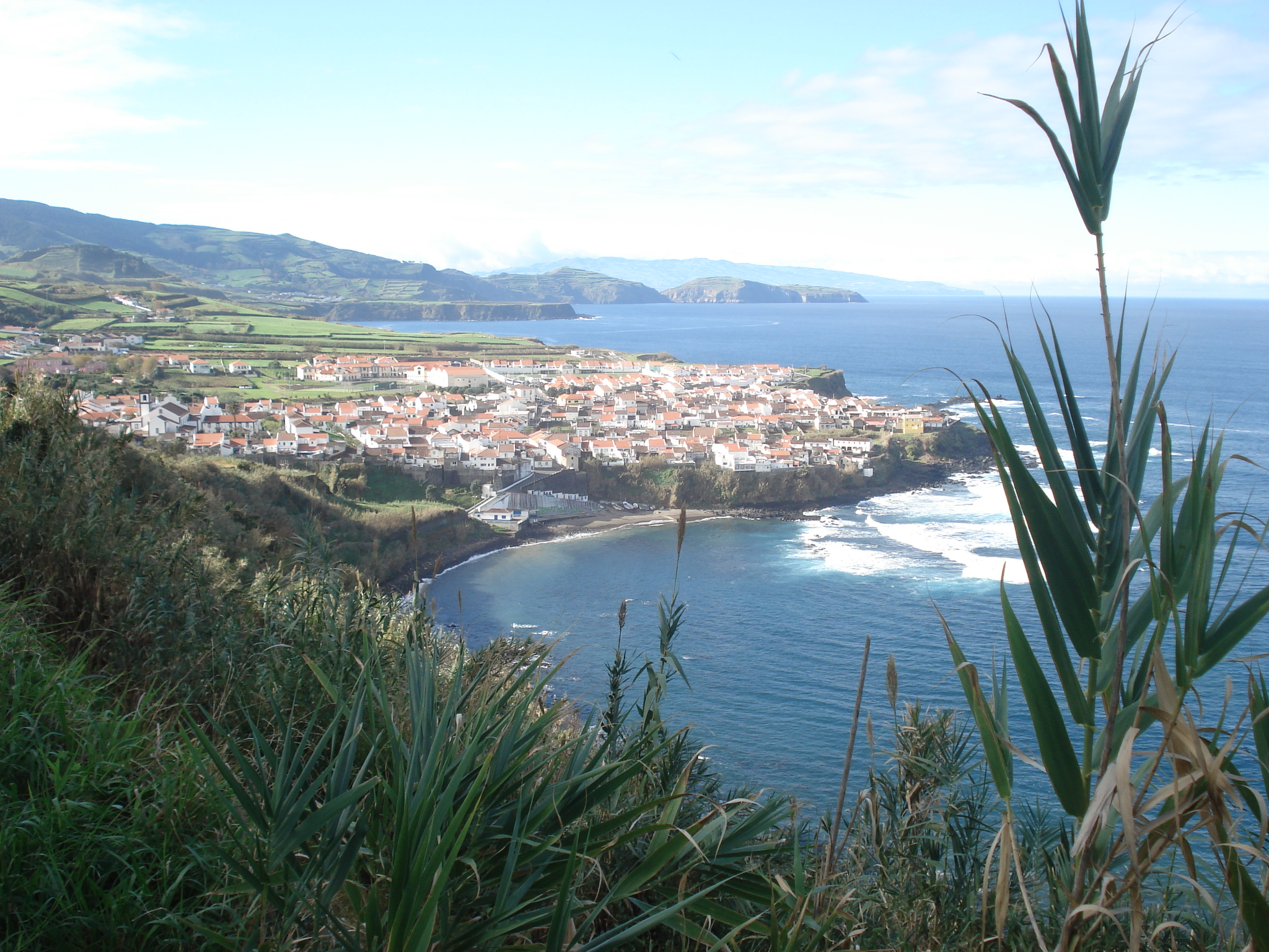 The village of Maia, along the northern coast of São Miguel Island, in the municipality of Ribeira Grande.